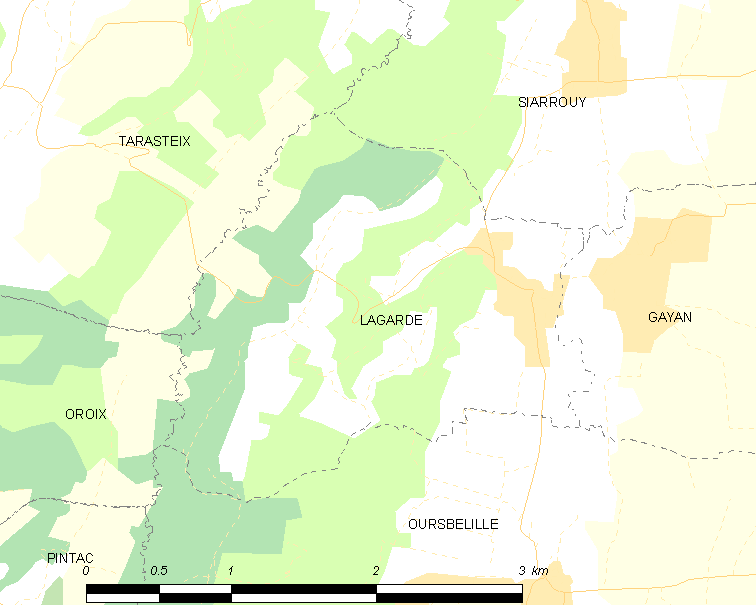 Map of French municipality